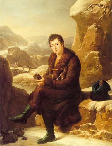 Portrait of Nicolas Demidoff (1773-1828)